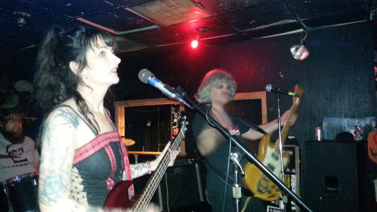 Left to right: Guest drummer Big Nick, J.V. McDonough, bass, and Paul Caporino, guitar; Cafe Bourbon Street, Columbus, Ohio, October 11th, 2015